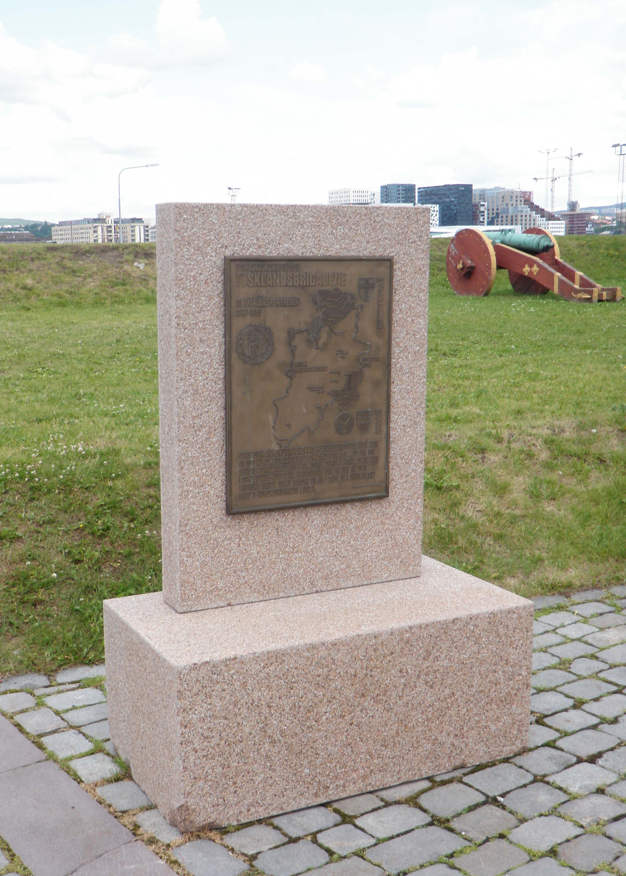 Memorial stone in memory of the brigades of the Independent Norwegian Brigade Group in Germany, and the 50,000 soldiers who saw service with them in the years 1946 to 1953. The memorial is located next to the Armed Forces Museum at Akershus Fortress, in Oslo, Norway.